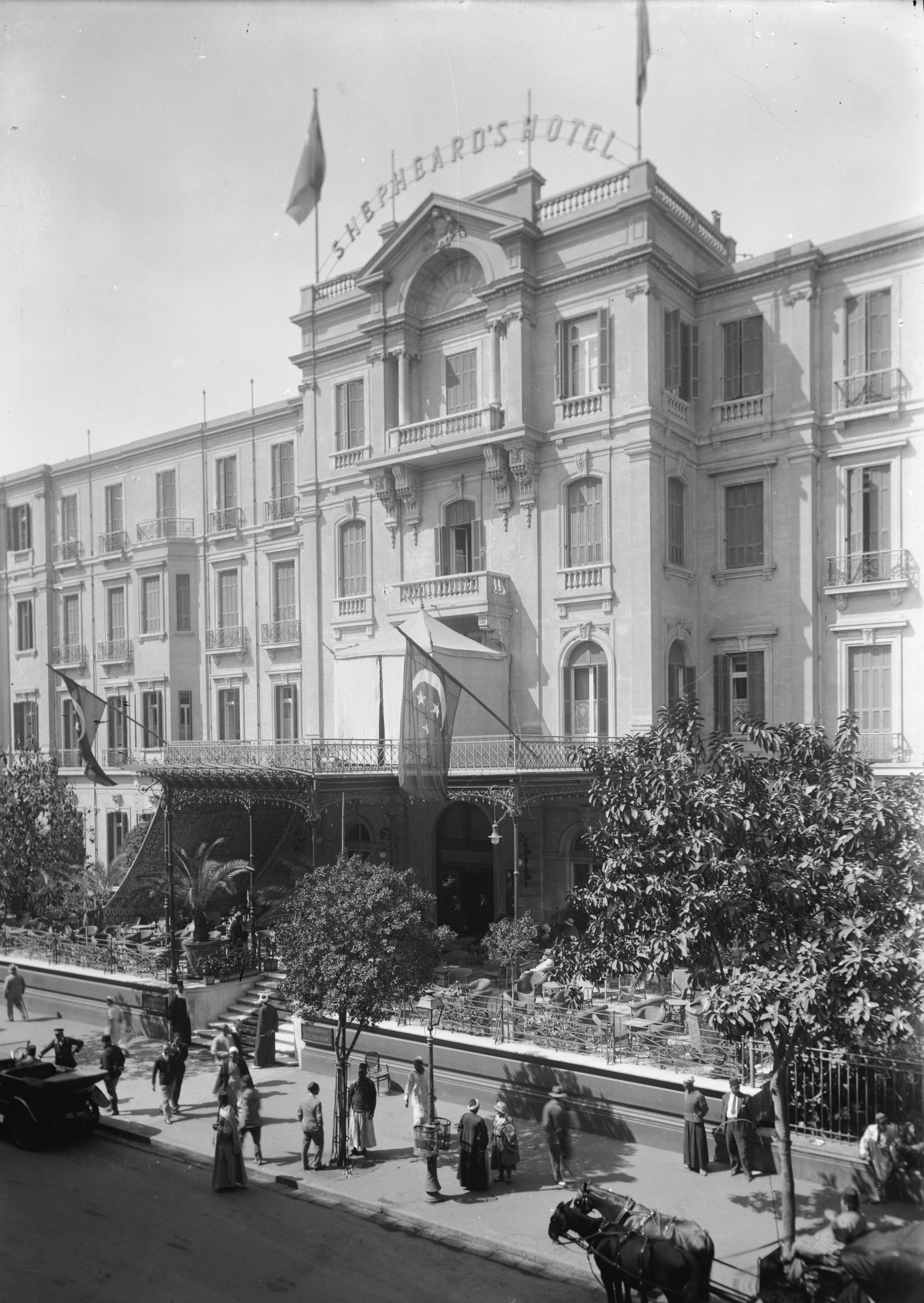 Picture of Shepheards' Hotel in Cairo Egypt